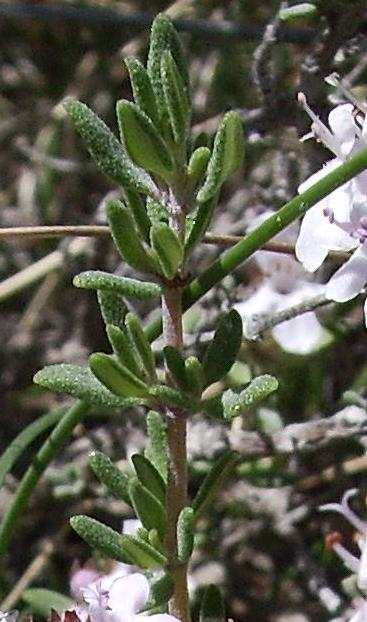 A Shoot of a thyme plant in the wild (Thymus vulgaris), Castelltallat, Catalonia